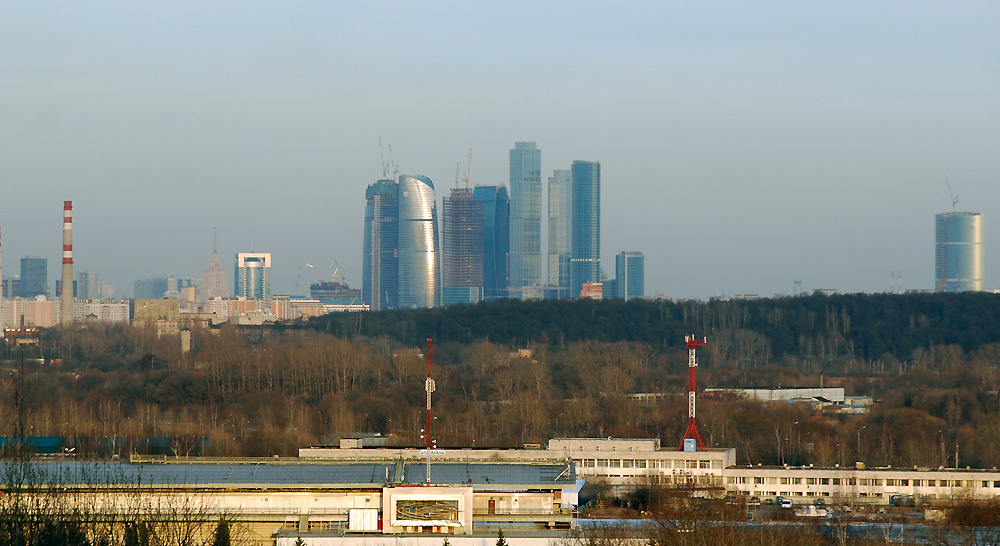 April, 2010.